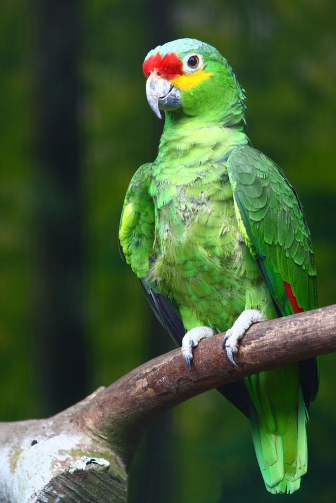 Red-lored Amazon (also known as Red-lored Parrot) at Jurong BirdPark, Singapore.